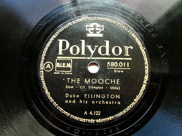 Duke Ellington Orchestra: The Mooche